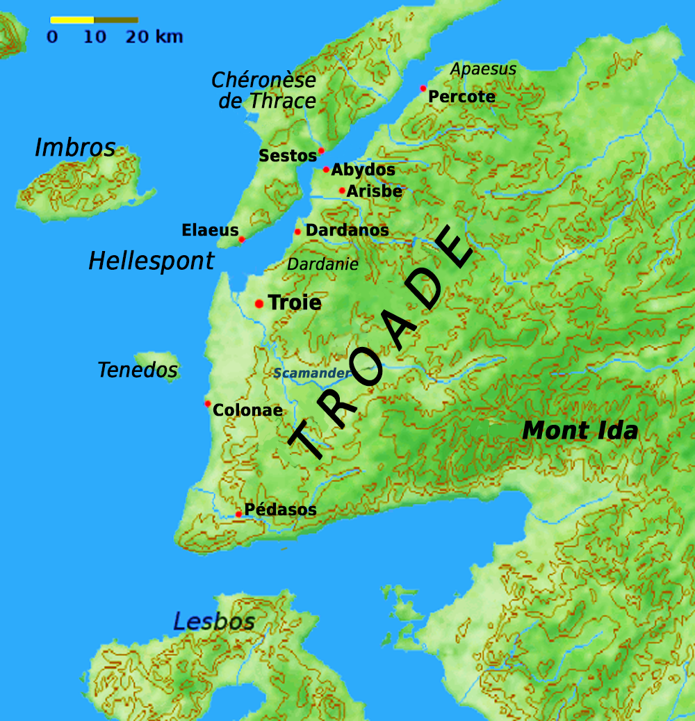 Map of the Troad, including the site of Troy. Note that the modern coastline has been altered to show a bay at the mouth of Scamander where the Greek ships would have been.